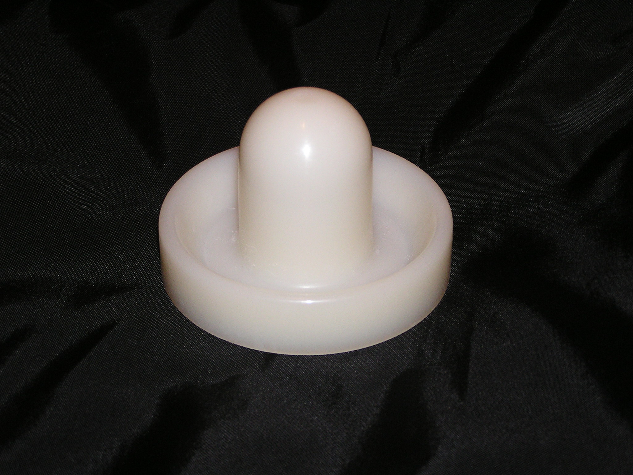 Mallet to play air hockey (high top)